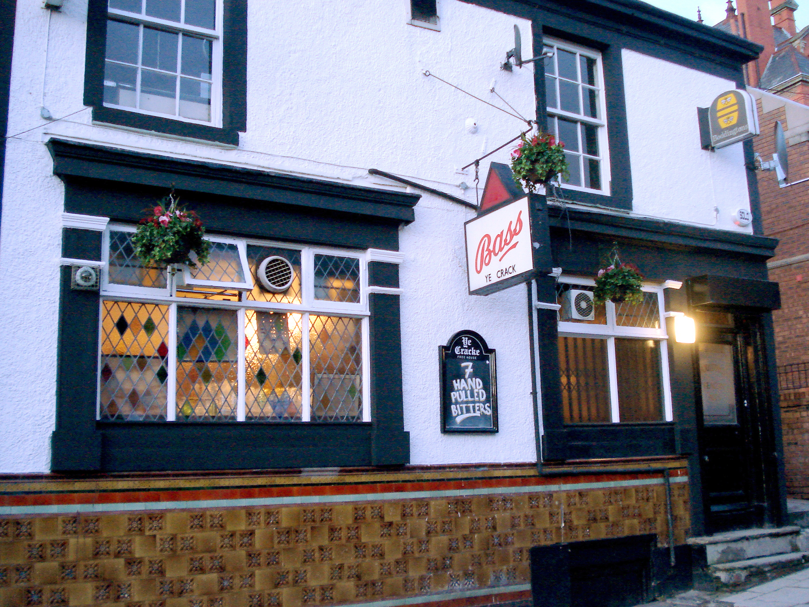 The Ye Cracke pub in Liverpool, which Lennon and his future wife regularly visited.